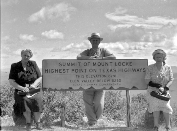 A group of people at Summit of Mount Locke. The women are sitting on either side of a sign by the Texas Highway Department designating the spot as the Highest Point on Texas Highways, and a man is standing behind the sign.